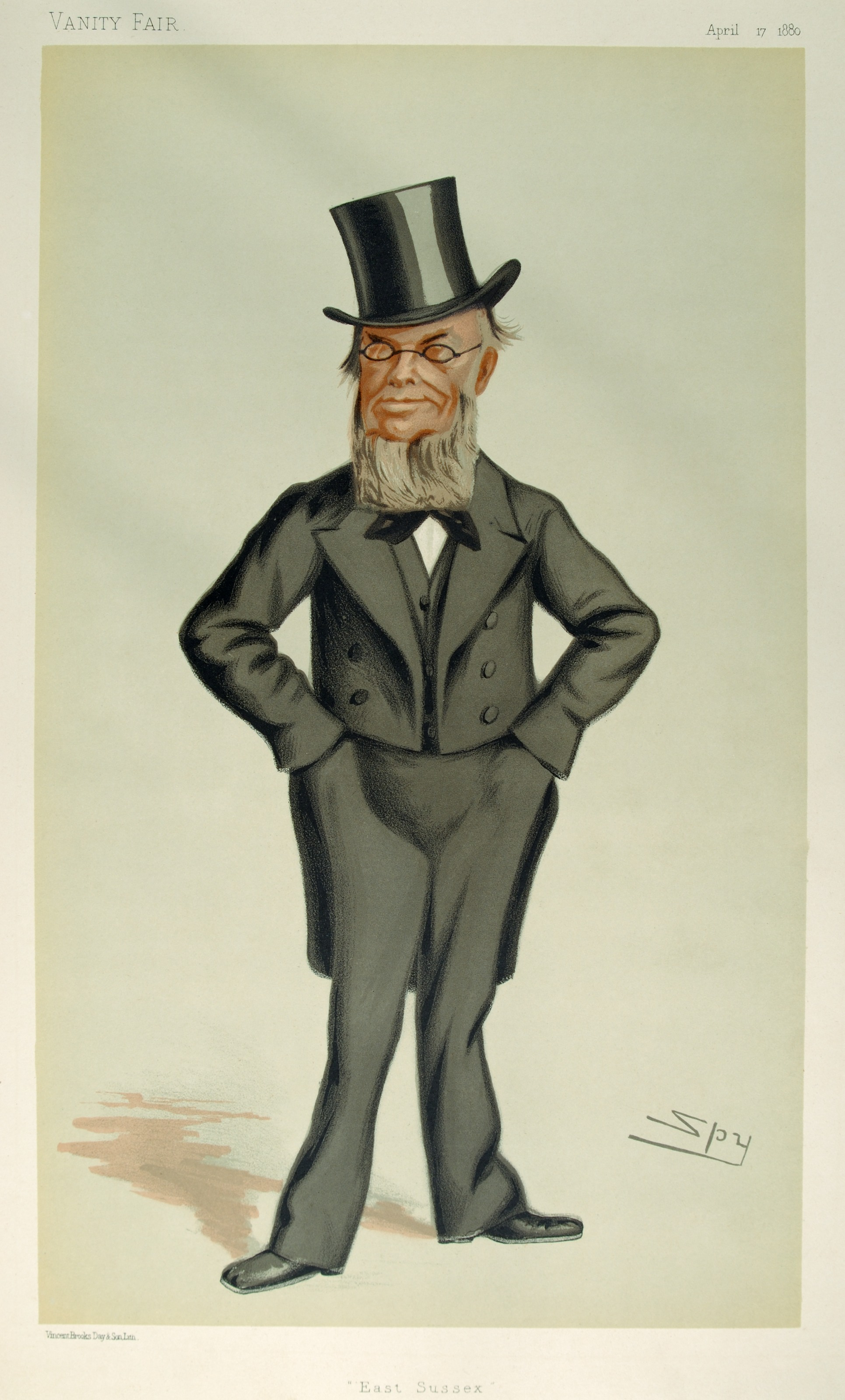 Statesmen No.324: Caricature of Mr George Burrow Gregory MP. Caption reads: "East Sussex"